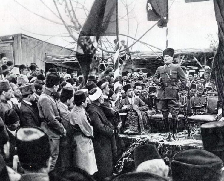 Mustafa Kemal (Atatürk) speaks to the people of MersinTürkçe: Mustafa Kemal (Atatürk) Mersin halkına konuşuyor.